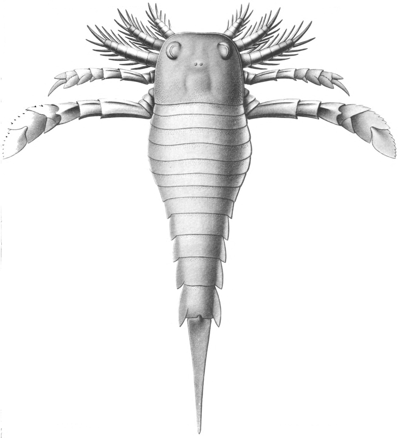 Dolichopterus macrochirus Hall Page 262 See plates 35, 41–45 1 Restoration of dorsal aspect. The swimming legs show the ventral aspect, the dorsal aspect not being known. Natural size The Eurypterida of New York. Volume 2. New York State Museum Memoir 14, plate 40